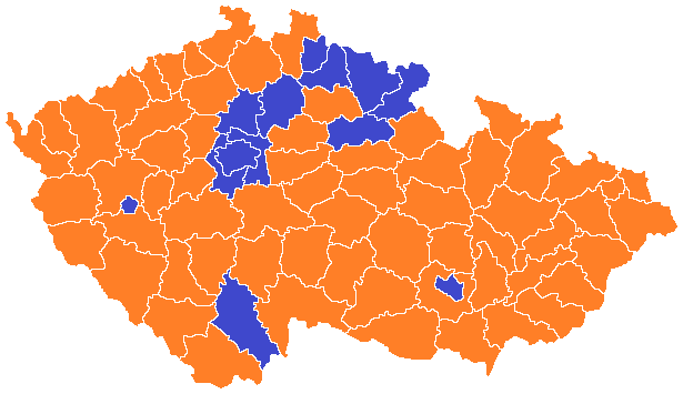 Elections to the Chamber of Deputies in 1998 - winning party by districts (blue ODS, orange ČSSD)